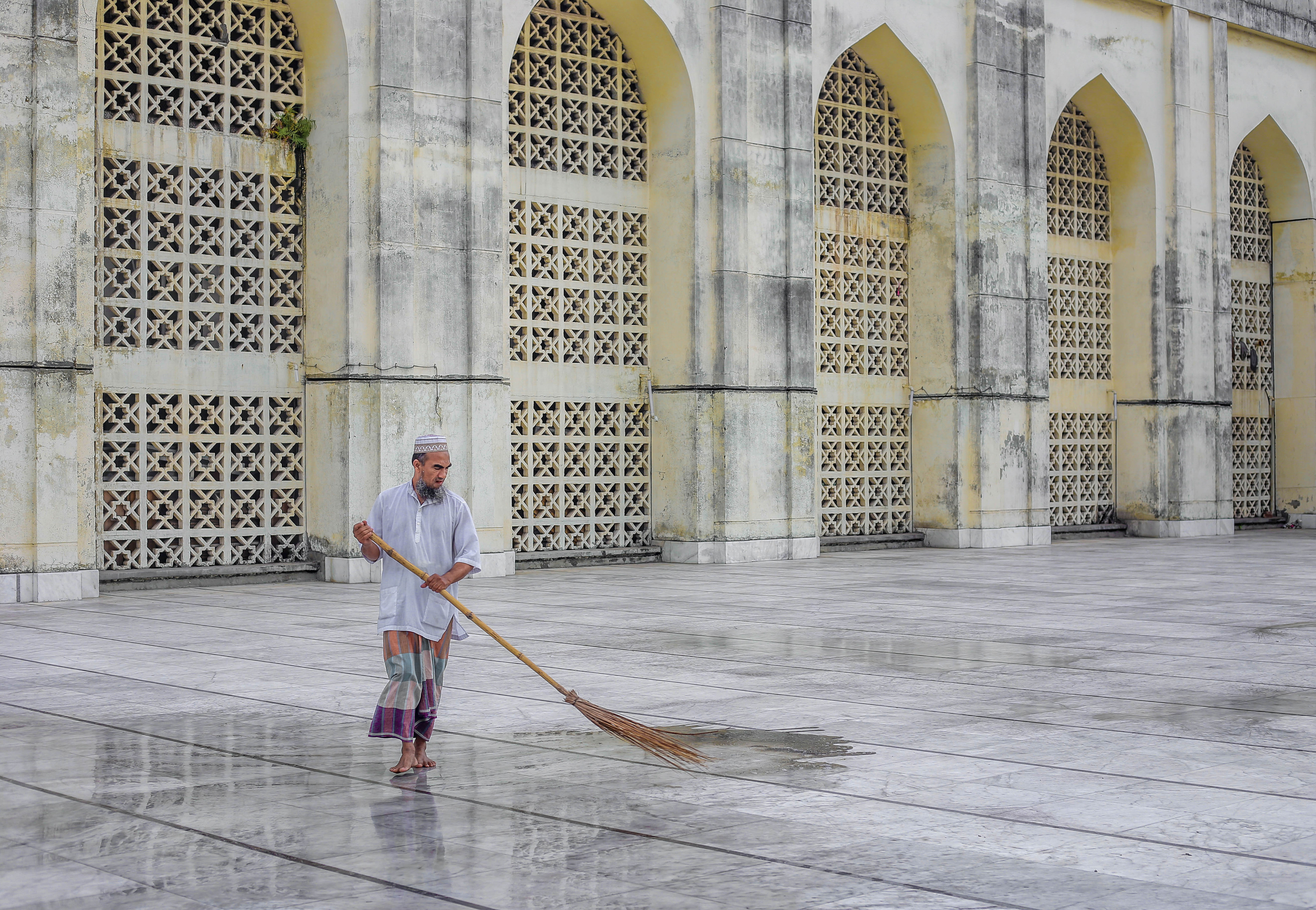 Baitul Mukarram National Mosque is the National Mosque of Bangladesh, located at the center of Dhaka.